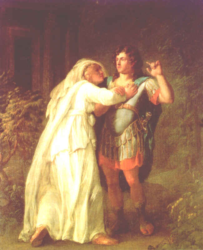 Johann Wolfgang von Goethe (1749-1832) as Orestes and corona Schroeter(1751-1802) as Iphigeneia